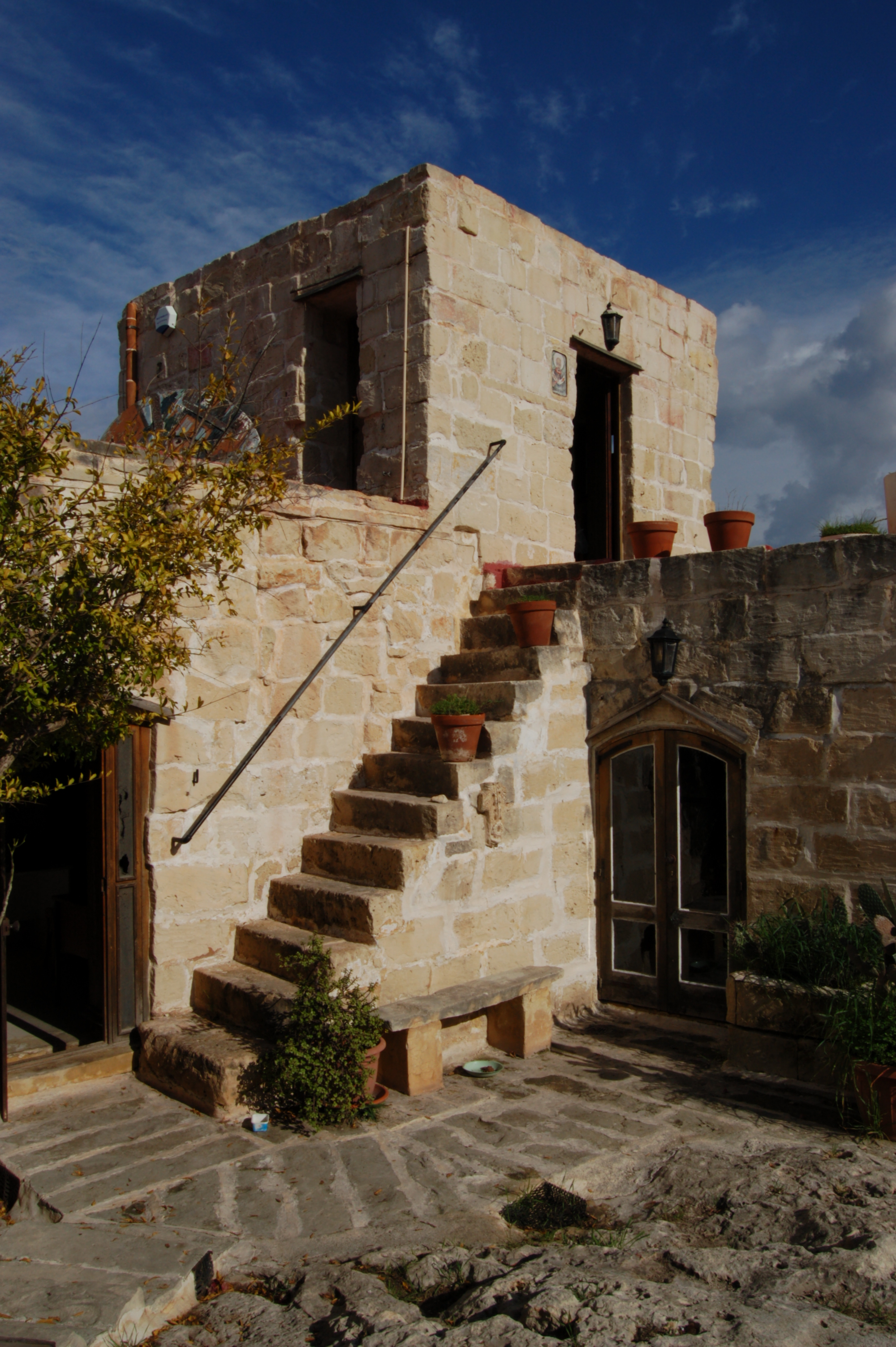 Maltese Restored Farmhouse used as an office